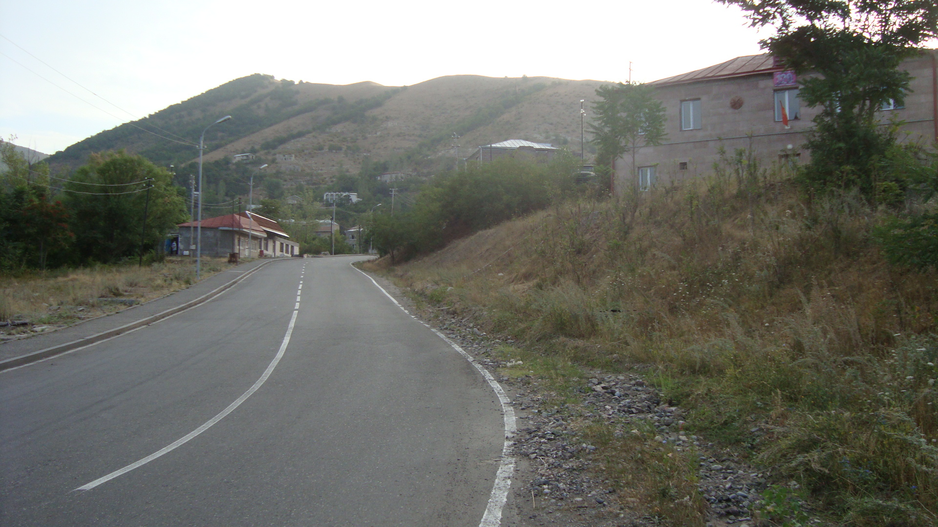 A main street in Berdzor, Republic of Mountainous Karabagh (Artsakh).